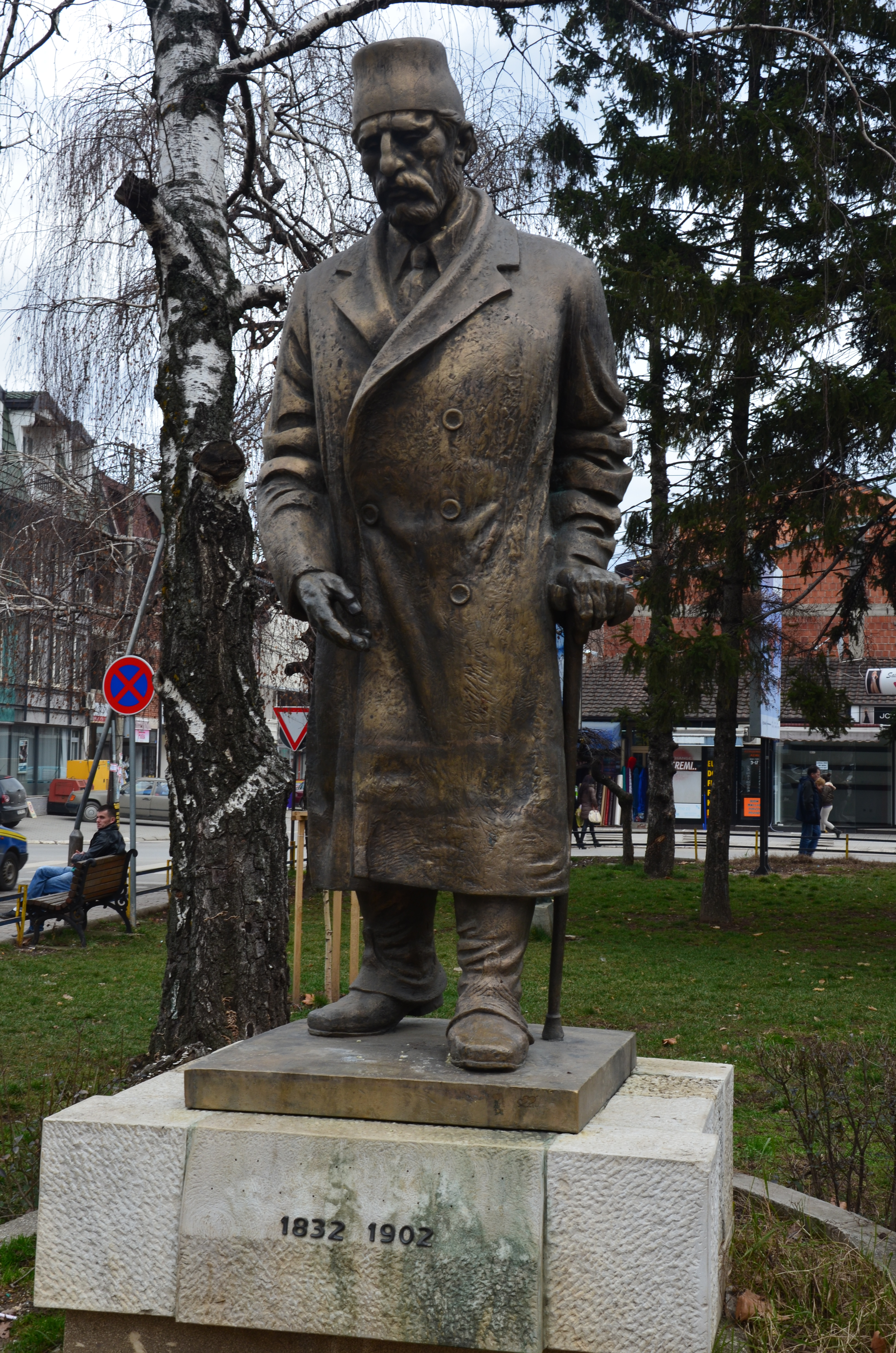 Monument of Haxhi Zeka